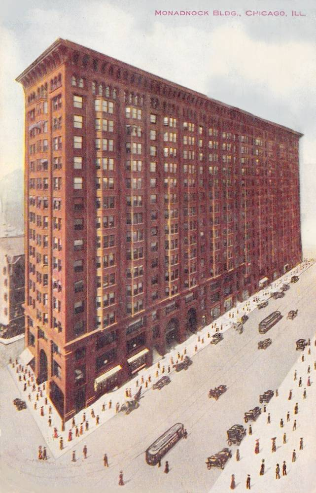 Vintage postcard captioned: "Monadnock Building, Dearborn, Jackson and Van Buren St., Chicago. The largest office building in Chicago." Aerial view facing northwest from corner of Dearborn and Van Buren.